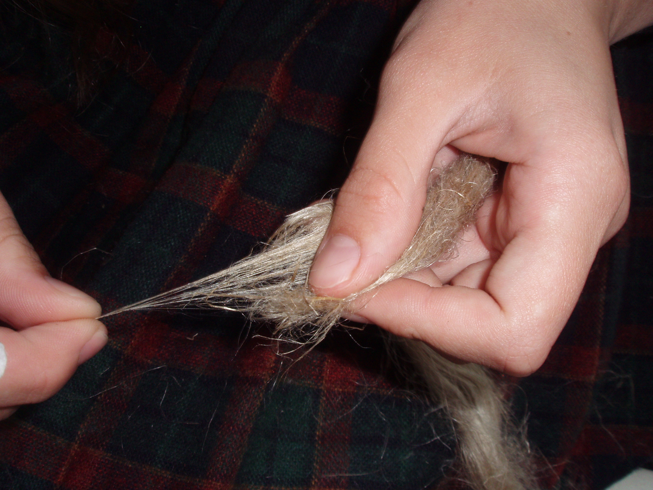 a picture of me spinning, using the short draw technique- this is a close up on my hand